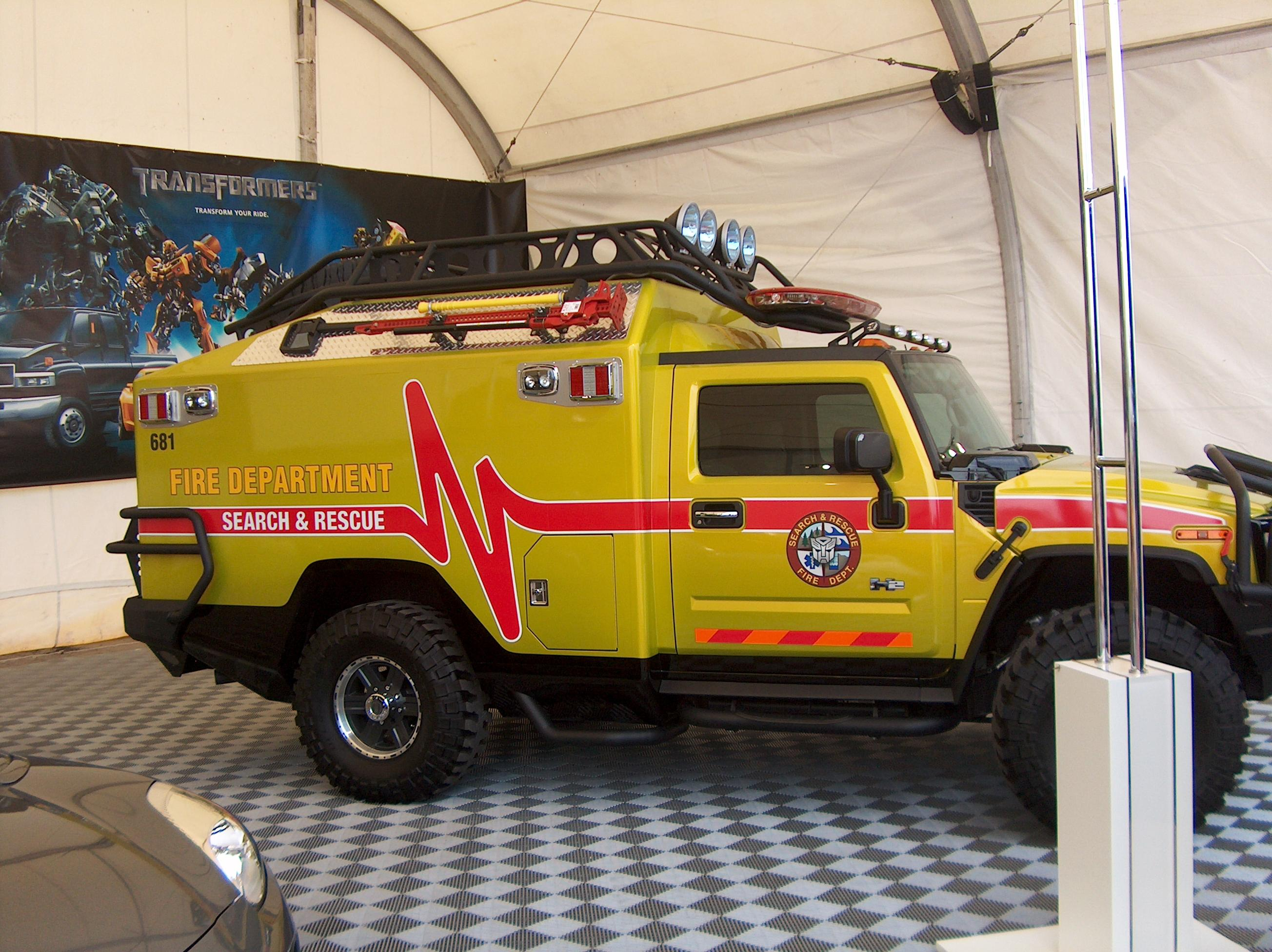 The Autobot Ratchet in a picture I took at the 2007 Detroit River Walk Festival.